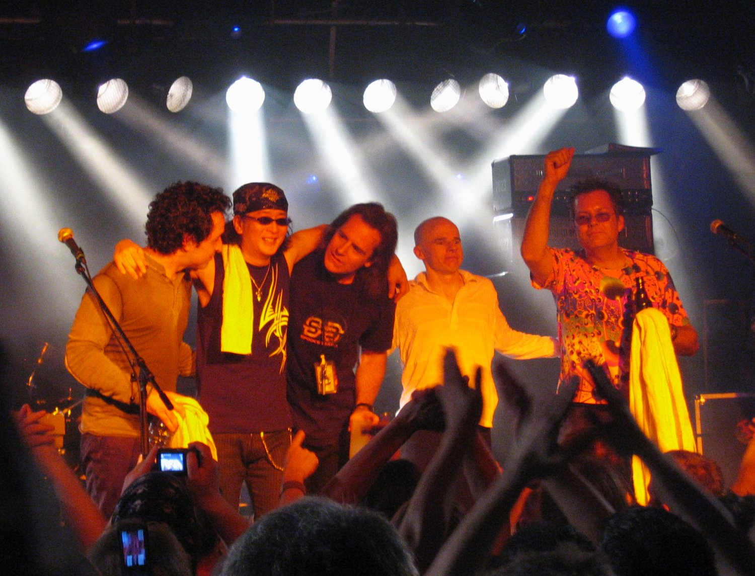 Spock's Beard in 2007: Nick D'Virgilio, Ryo Okumoto, Dave Meros, Jimmy Keegan, Al Morse